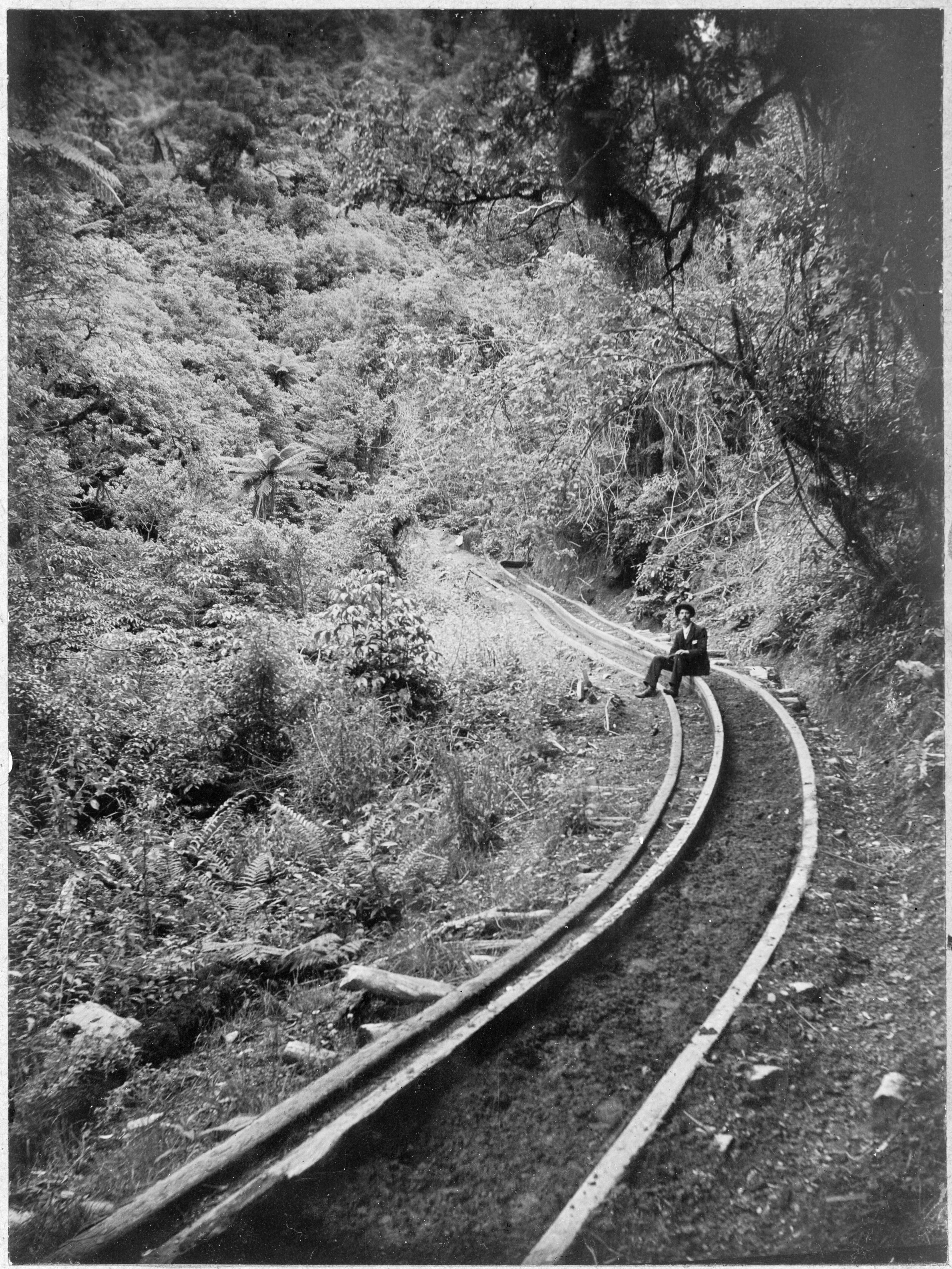 Bush tramway line through Price's Bush in the Akatarawa Valley, showing the wooden rails. An unidentified man is sitting on the rails, on a bend in the line which is surrounded by native bush. Photograph taken by Albert Percy Godber circa 1903. This image is a film negative taken by Godber.